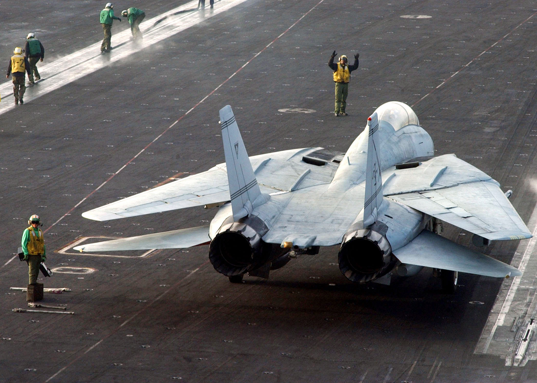 Aboard USS Harry S. Truman (CVN 75) July 12, 2004 - An F-14 Tomcat taxis to one of four steam-powered catapults during flight operations aboard USS Harry S. Truman (CVN 75). The ship is participating in Majestic Eagle, a multinational exercise being conducted off the coast of Morocco. The exercise demonstrates the combined force capabilities and quick response times of the participating naval, air, undersea and surface warfare groups. Countries involved in the U.S.-led exercise include the United Kingdom, Morocco, France, Italy, Portugal, Spain, and Turkey. Truman's participation in Majestic Eagle is part of her scheduled deployment supporting the Navy's new fleet response plan (FRP) Summer Pulse 2004, the simultaneous deployment of seven carrier strike groups (CSGs), demonstrating the ability of the Navy to provide credible combat across the globe, in five theaters with other U.S., allied, and coalition military forces. Summer Pulse is the Navy’s first deployment under its new Fleet Response Plan (FRP). U.S. Navy photo by Photographer's Mate Airman Patrick Marvin Lee Copeland. (RELEASED) For more information go to